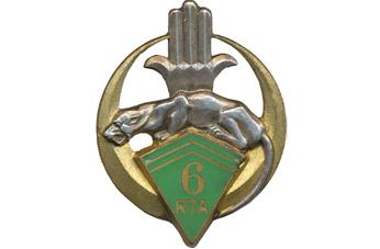 Regimental badge of the 6th Rifle Regiment Algerians (France).